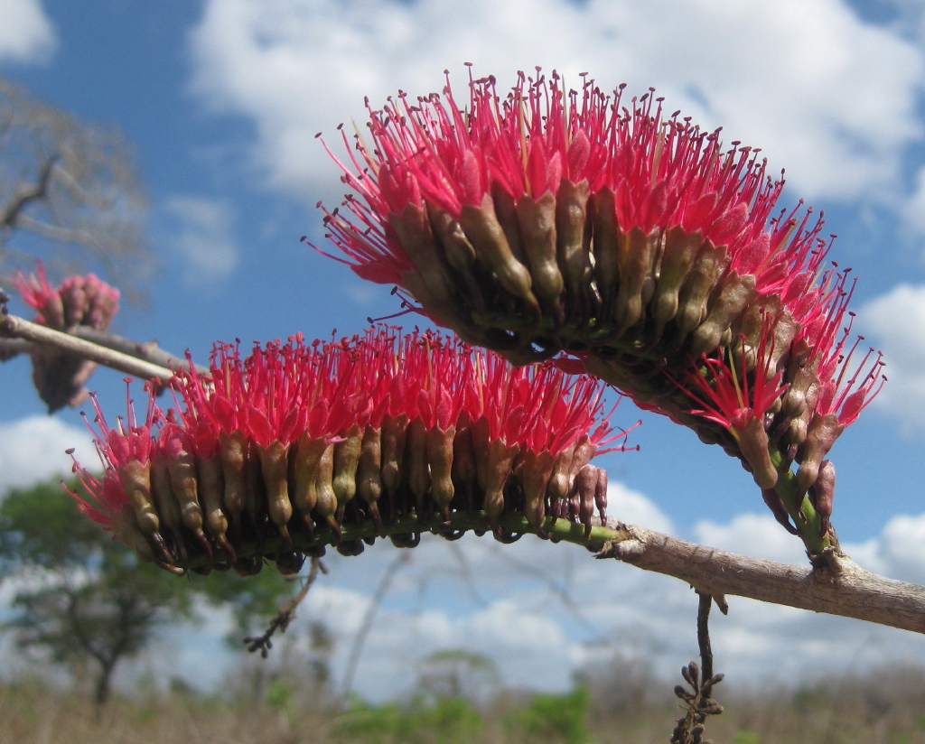 Flowering Mozambique Burning-bush Combretum close to Metuge in Cabo Delgado province of Mozambique.